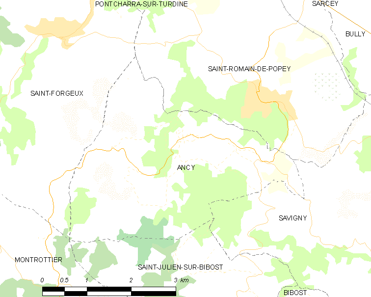 Map of French municipality